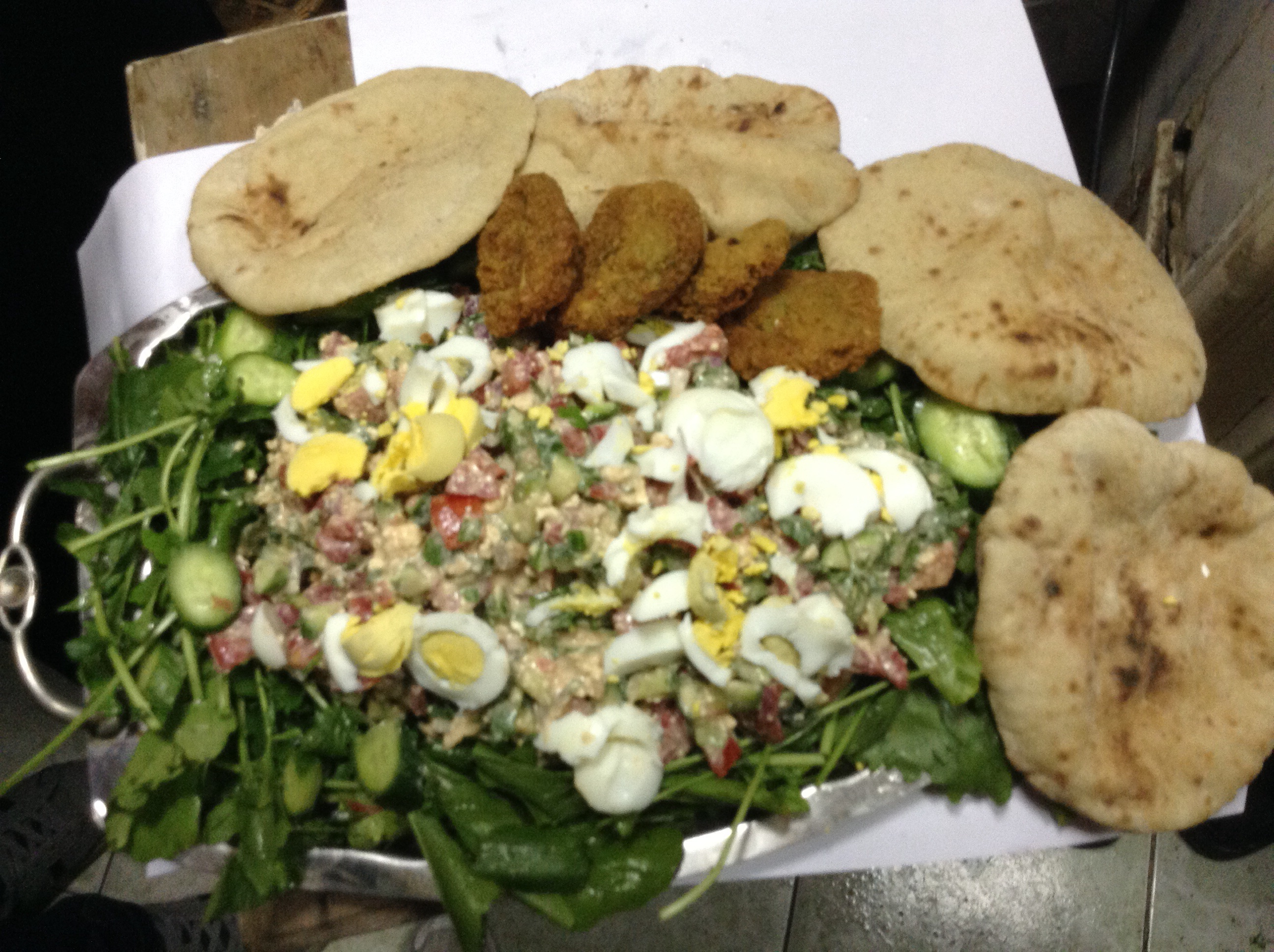 Egyption break fast " fool and falafel This is an image of food from Egypt